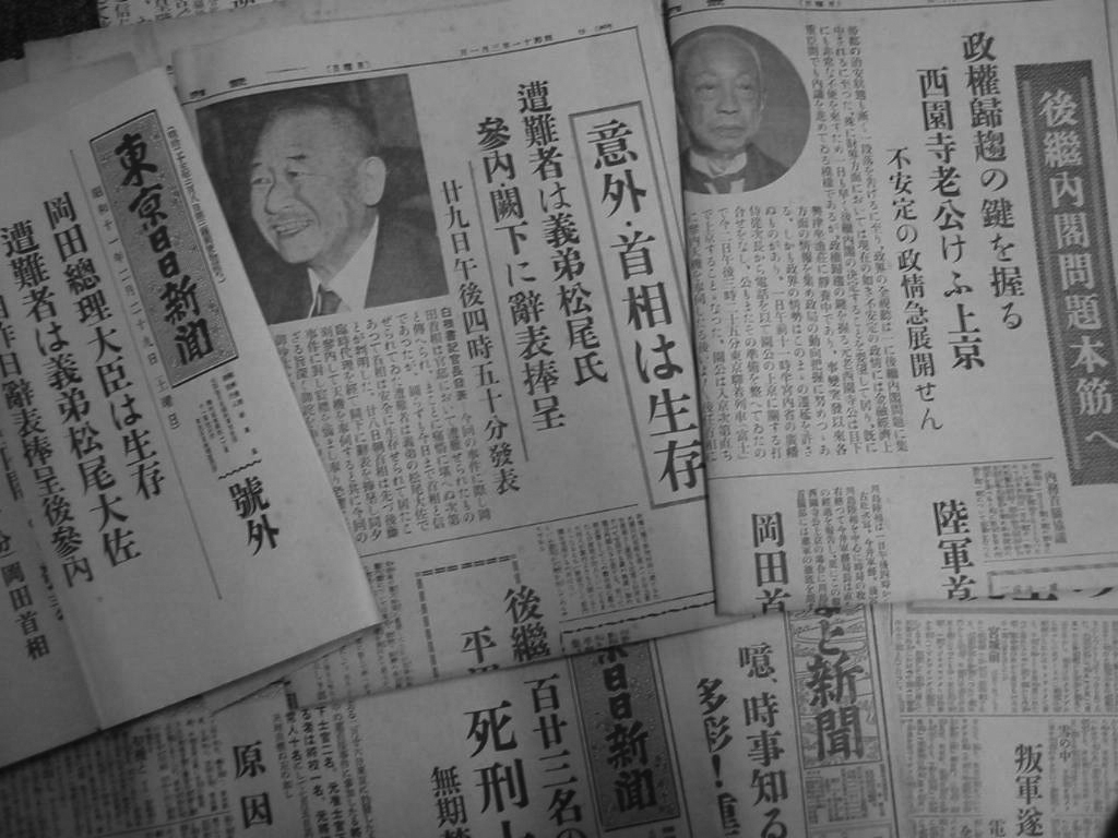 Japanese newspaper extras reporting that Prime Minister Keisuke Okada (1868–1952, in office 1934–36) is alive.